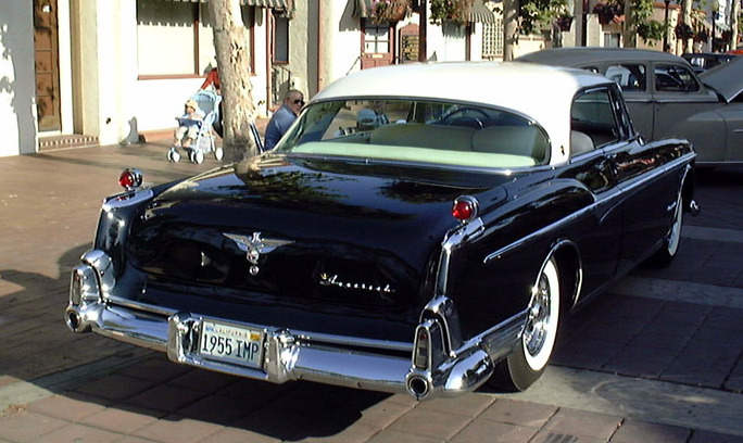 1955 Imperial from the rear, showing the gunsight taillights.